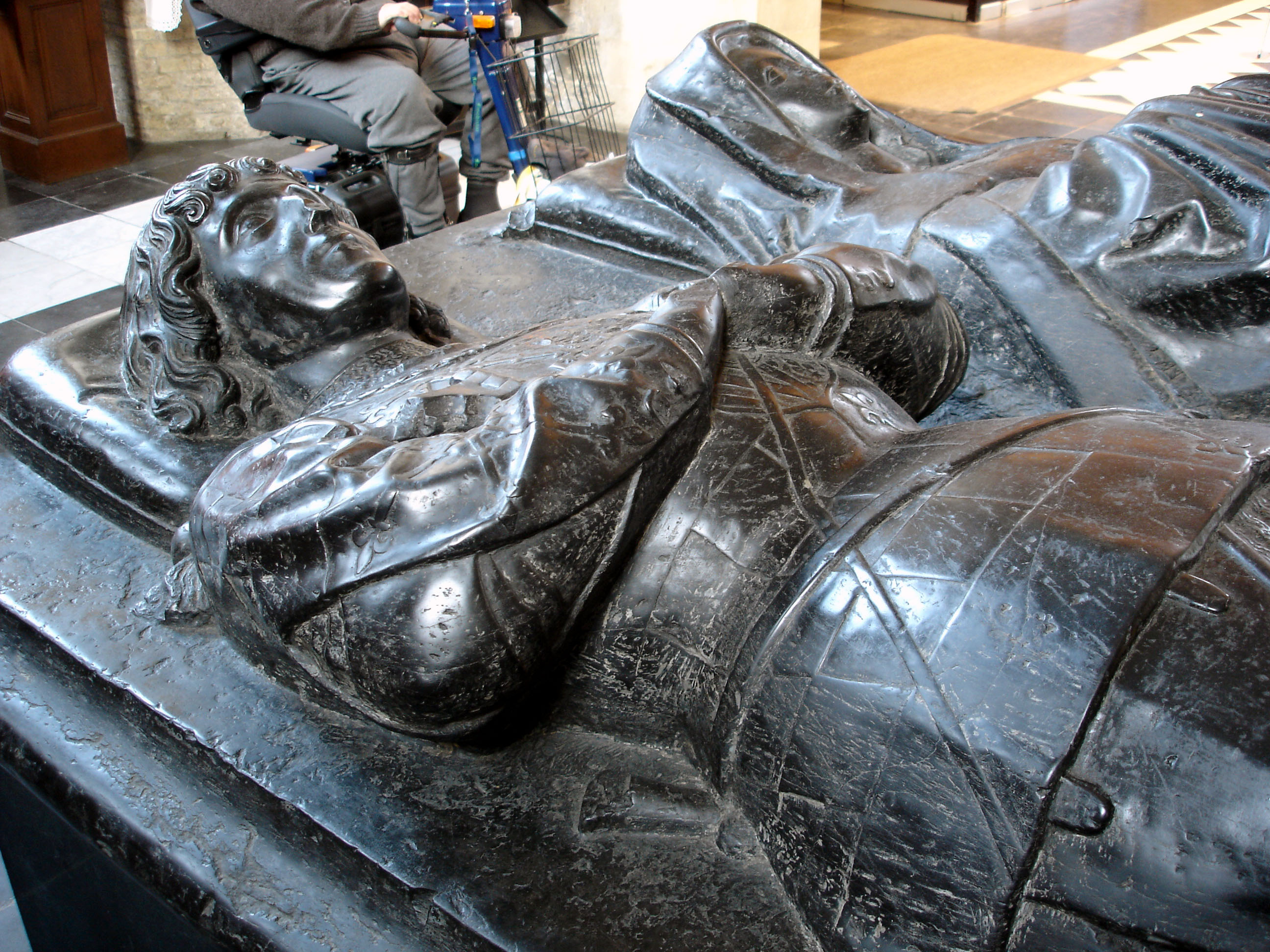 Grave monument of Jan van Kleef, bastard of Ravenstein, and his wife Johanna van Lichtervelde in the Sint-Michielskerk in Roeselare.